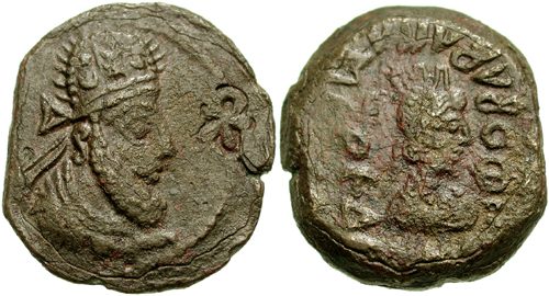 Coins of the Parthian vassal king Meredates, king of the Characene